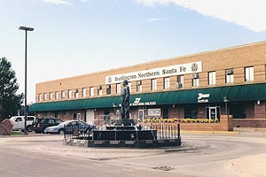 Train station in Havre, Montana, United States